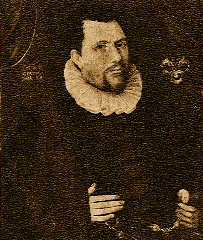 Henrik Klasson Horn af Kanckas (c. 1512-1595), Swedish nobleman, military commander and governor of Finland. Wrong information in source of scan; painting actually depicts File:Karl Henriksson Horn.jpg